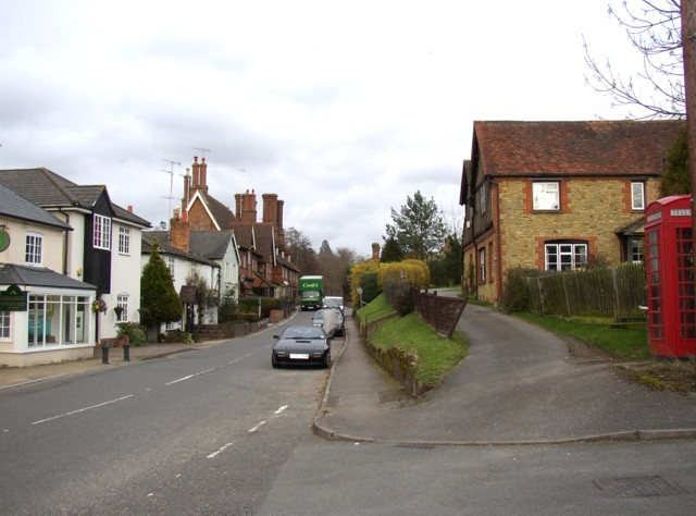 The A248 through Albury. At TQ049478. Here the main road (Albury Street) is at its narrowest, which does not stop people from parking! The house on the right has a nice combination of colours - yellow-buff walls with red-brick dressings. See other photos of the houses with the large chimneys (in TQ0547).